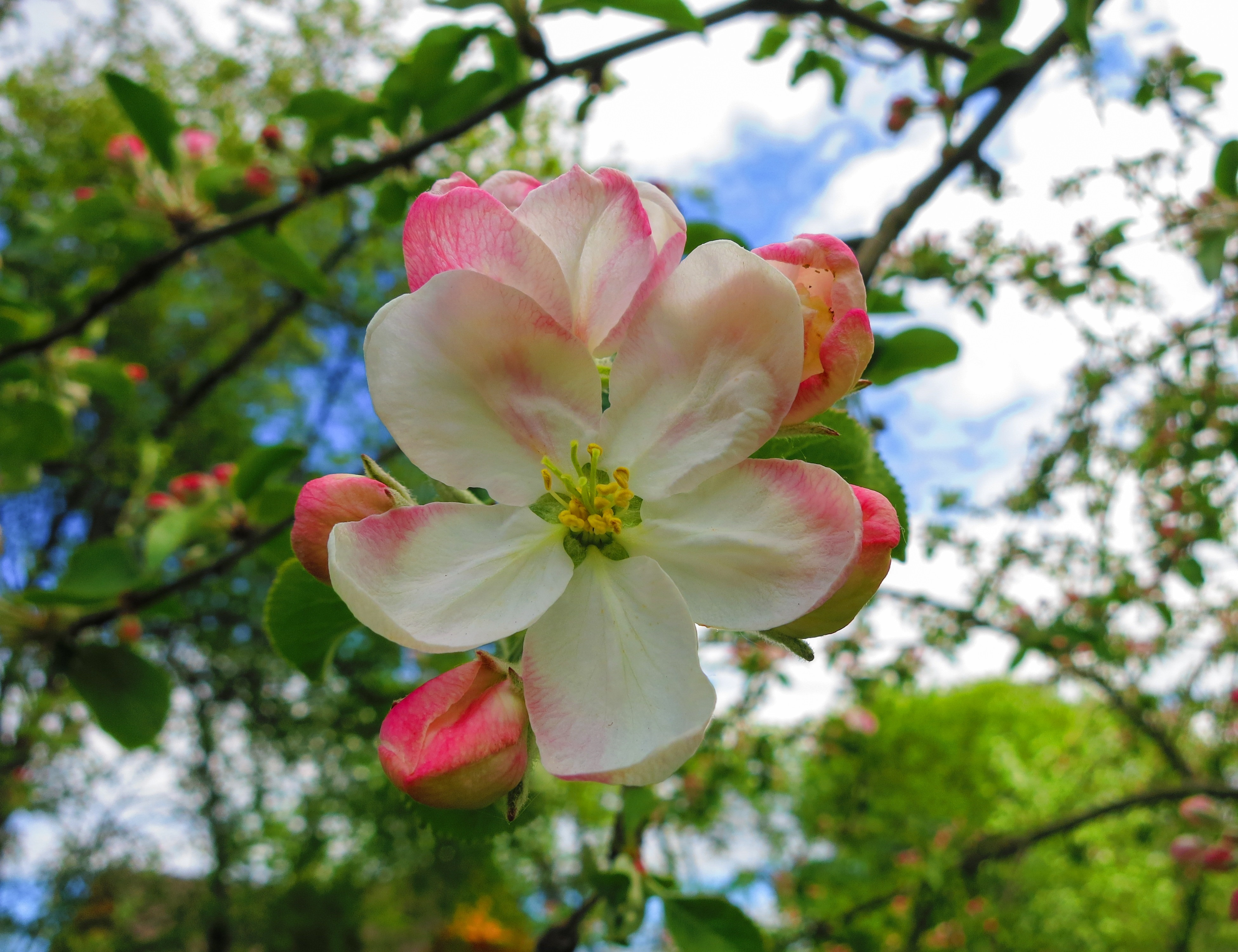 Flowers of apple tree cultivar ’Talvenauding’ in Estonia